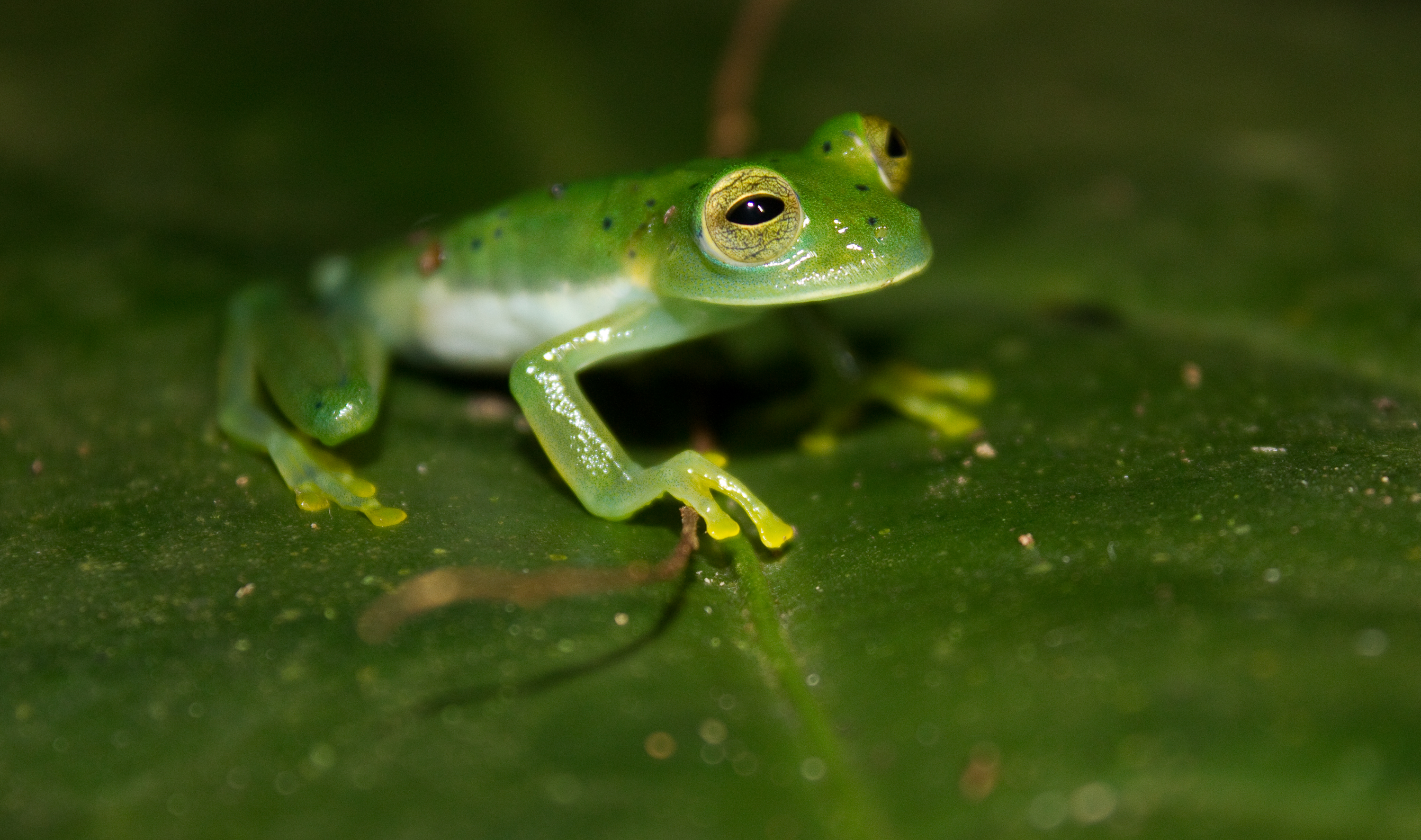 Emerald Glass Frog